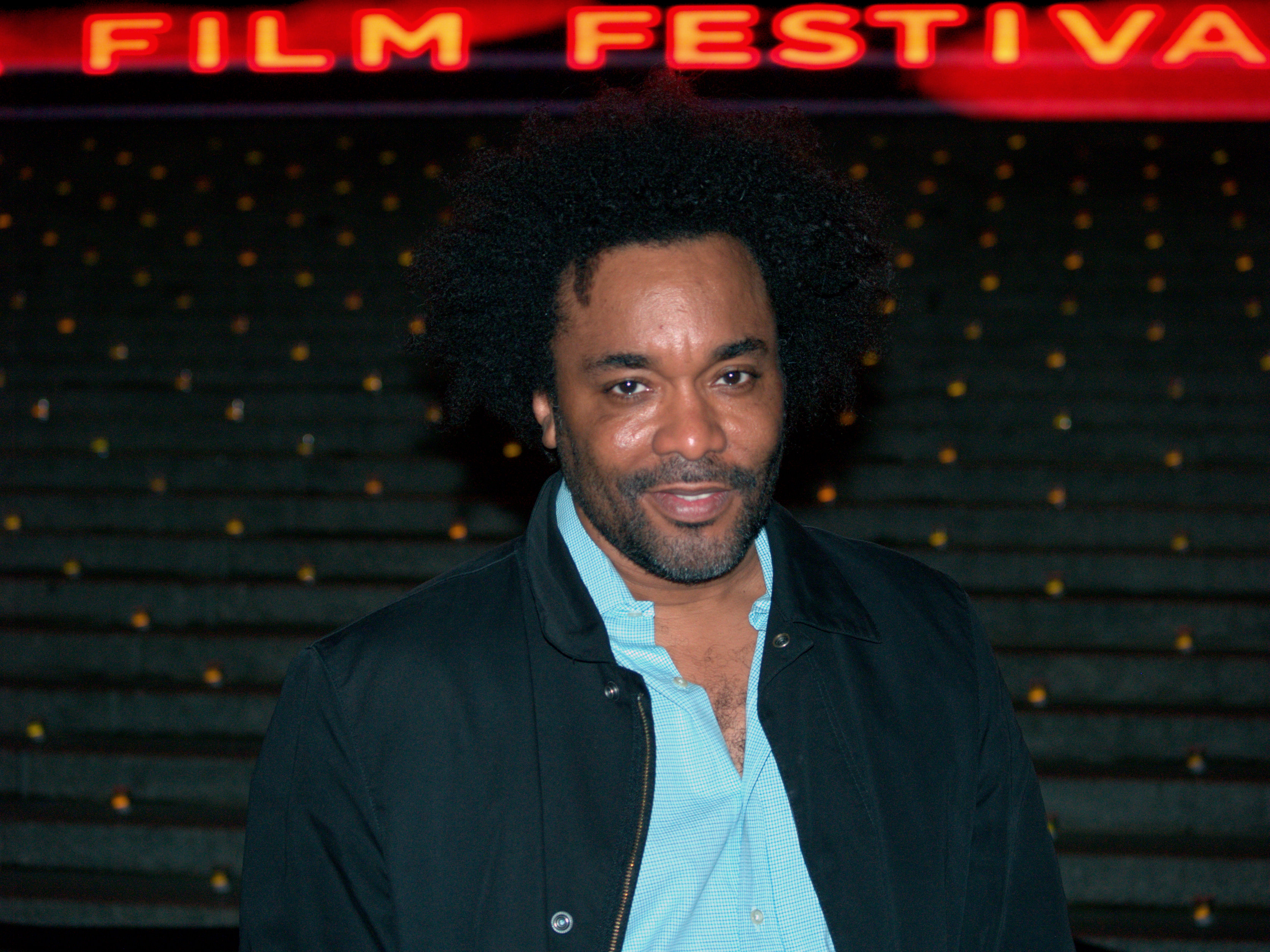 Lee Daniels at the Vanity Fair celebration for the 2009 Tribeca Film Festival.